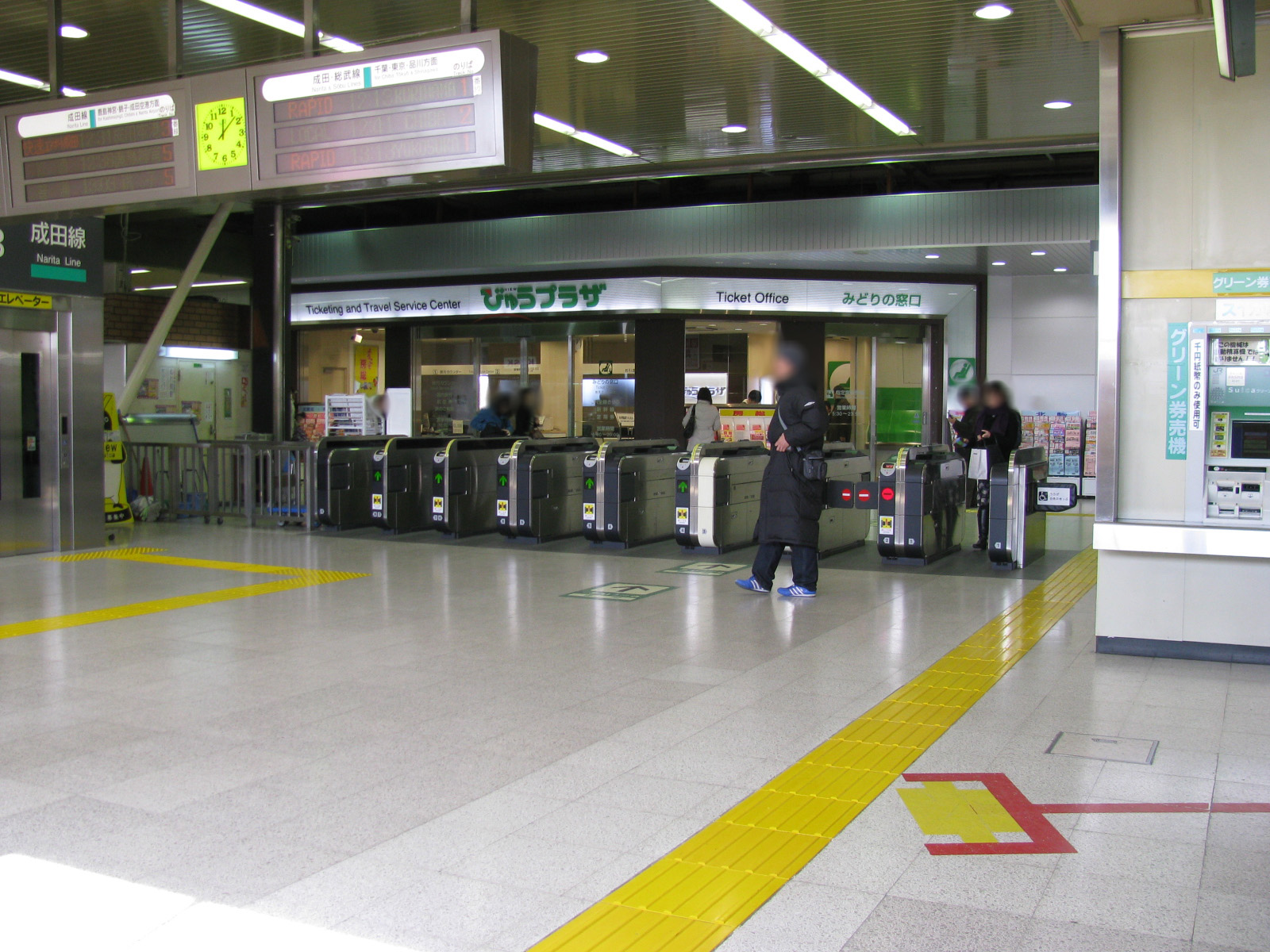 Narita station